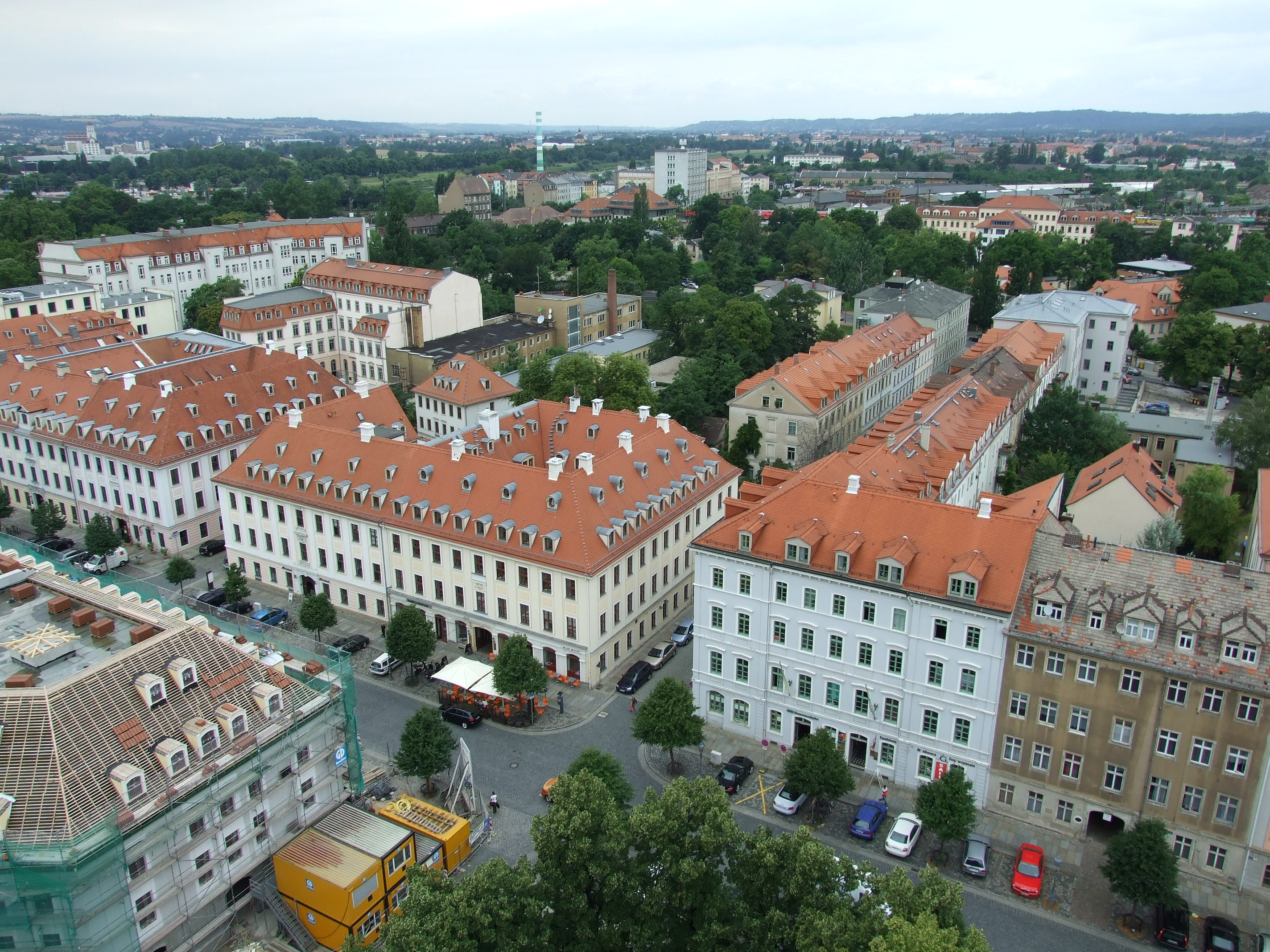 Aerial view onto Königsstraße from Dreikönigskirche church tower in Dresden.help